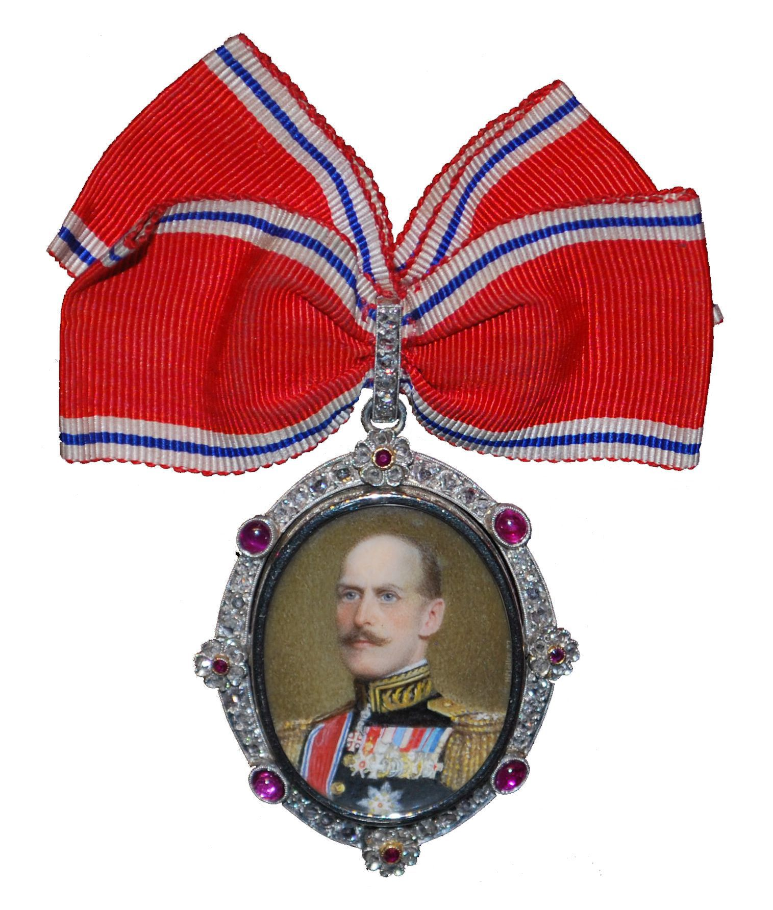 Royal Family Order of King Haakon VII of Norway, insignia beloning to Cronw Princess Märtha of Norway. Exhibited as part of "Royal Journeys 1905–2005" in The National Museum of Art, Architecture and Design, Oslo.